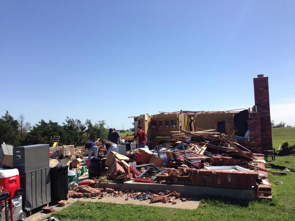 Survey team found EF3 tornado damage about 4 miles west of Hwy 81 southwest of El Reno.